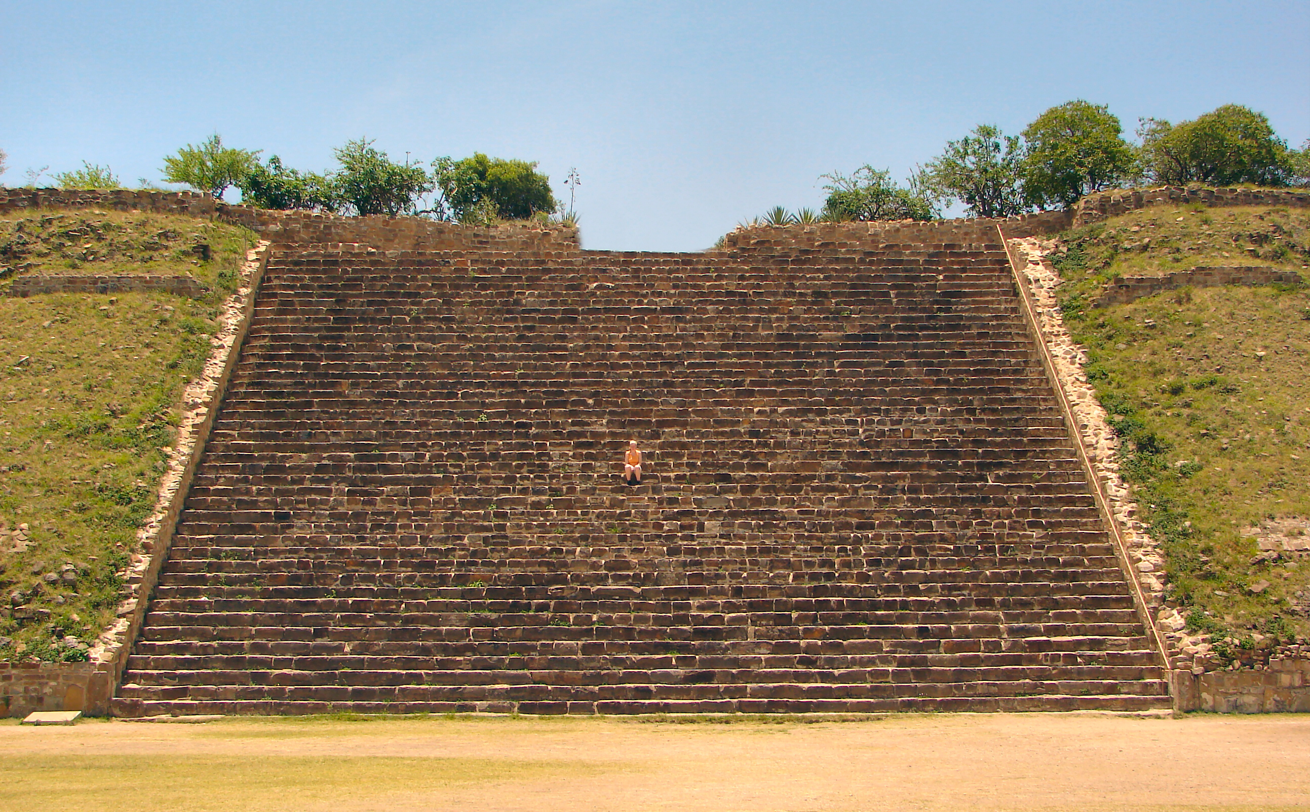 The stairs up to the South Platform in the Zapotec ruins of Monte Alban near Oaxaca, Mexico. The person sitting in the middle of the stairs to demonstrate the dimensions of the stairs is a friend of the photographer.